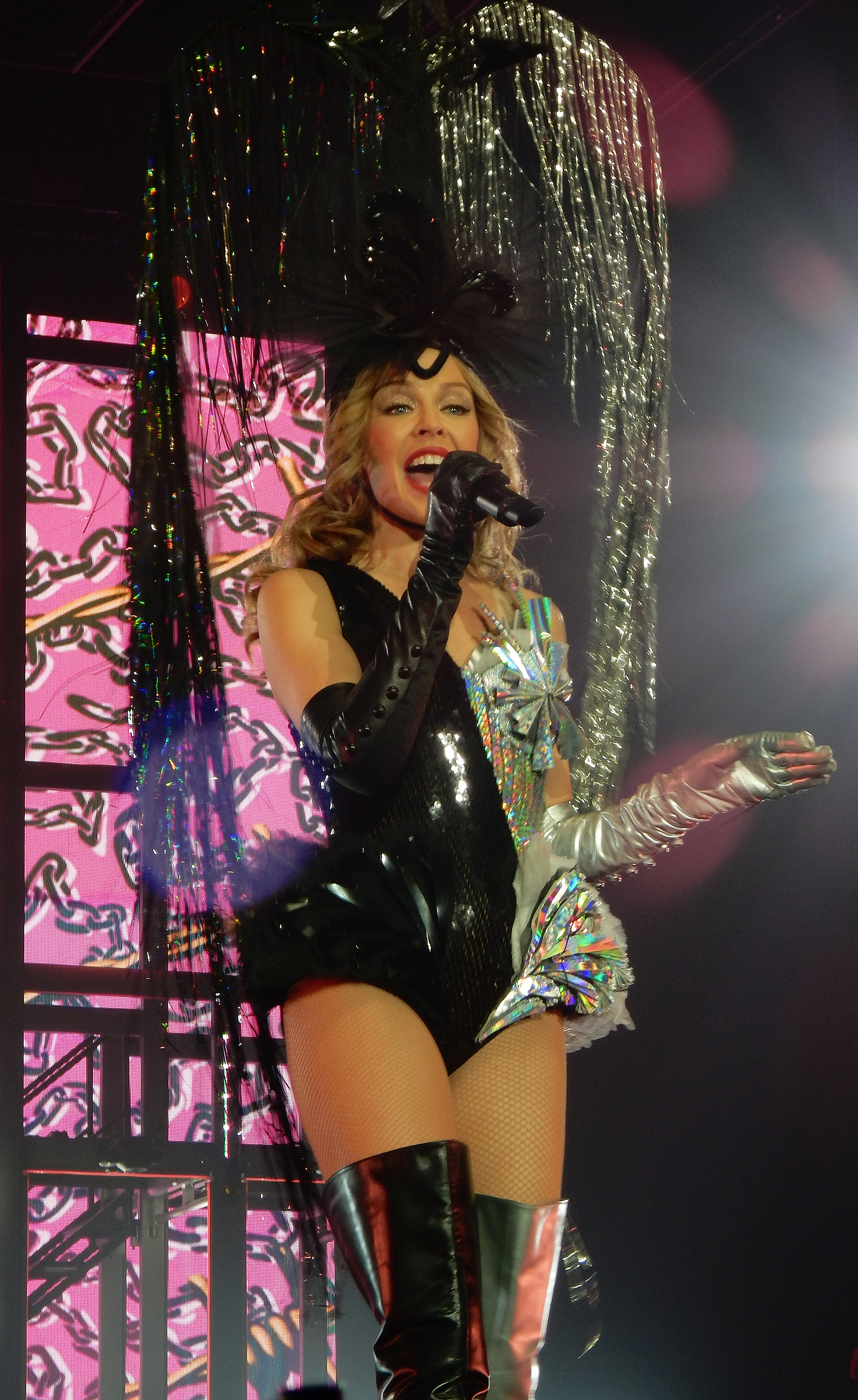 Kylie Minogue - Kiss Me Once Tour - Sheffield - 13.11.14. - 242